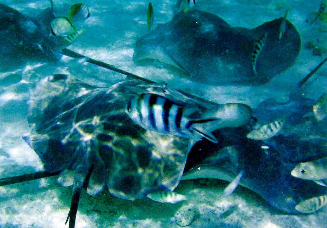 Group of pink whiprays (Himantura fai) off Bora Bora.